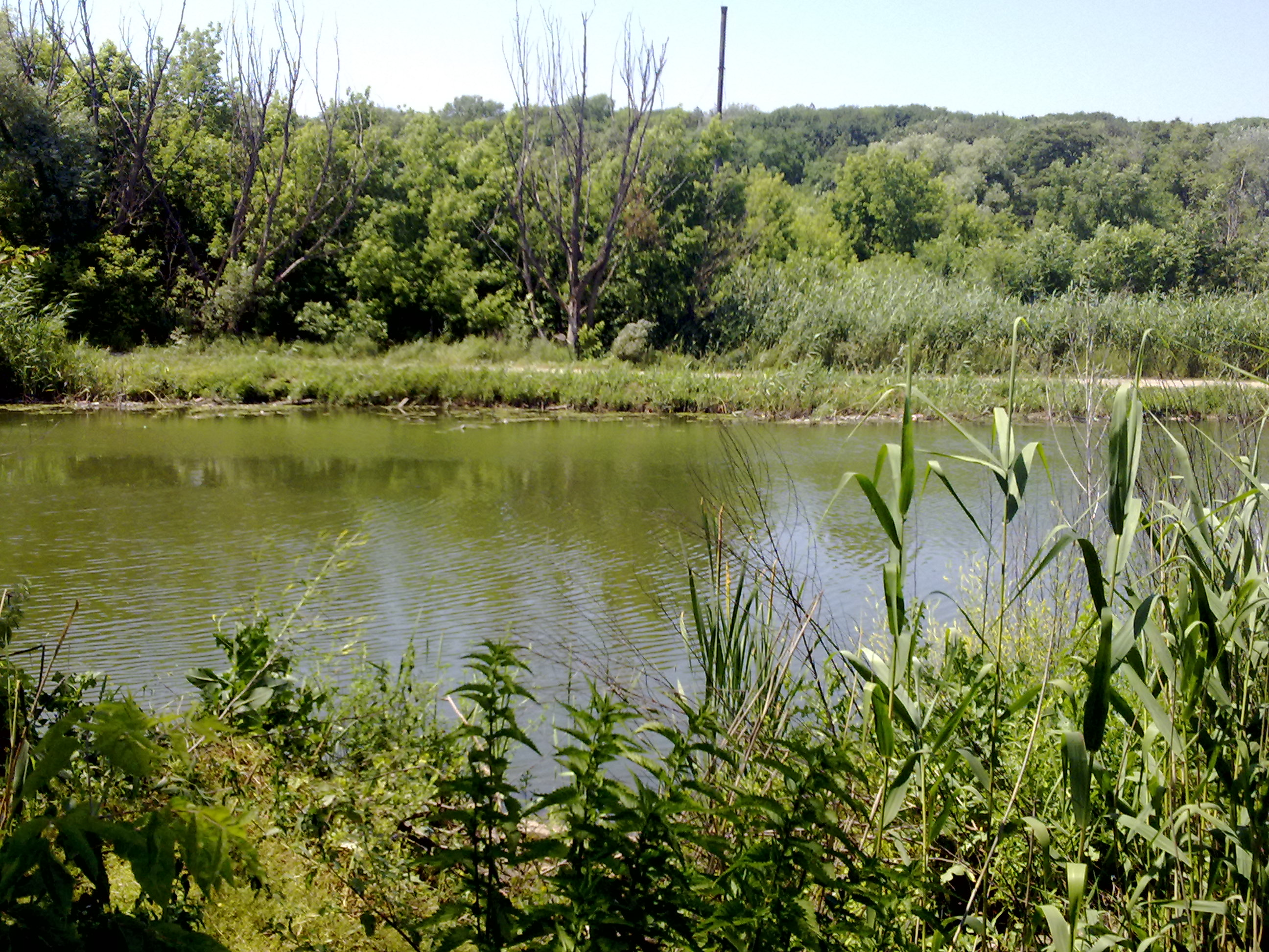 Temernik River near Rostov-on-Don botanical garden.